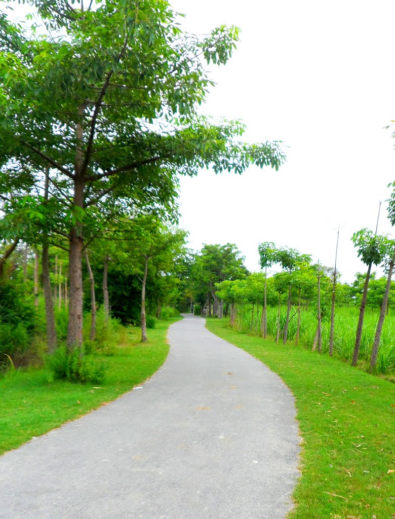 Road in sharda valley